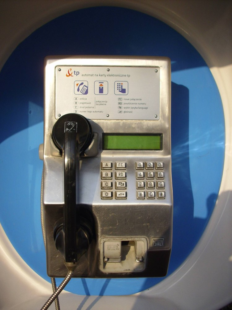 Pay phone type TPE97 (Poland).